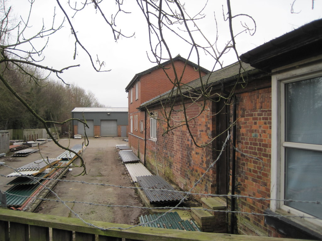 Nidd Bridge railway station, YorkshireOpened in 1848 by the Leeds and Thirsk Railway, this station closed to passengers in 1962 and completely in 1964. View south from the former level crossing. The single storey building was part of the 1870 rebuild of the station and we are looking along the site of the northbound (towards Ripon and Thirsk) platform. The two tracks would have been to the left and then the southbound (towards Harrogate and Leeds) platform. All the other buildings are modern.